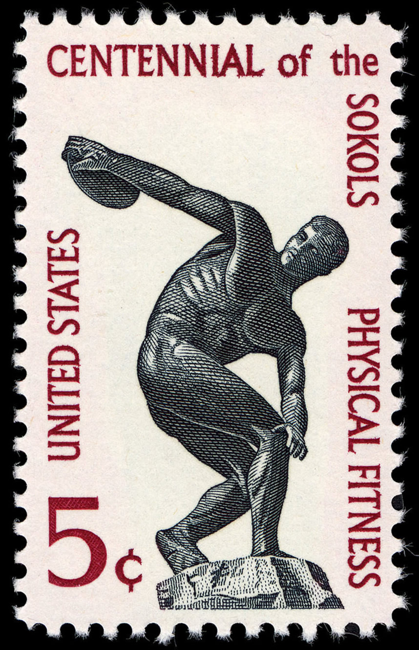 Physical Fitness Sokol 5-cent 1965 issue U.S. stamp, commemorating the 100th anniversary of the founding of the Sokol athletic organization in the United States and promotes the importance of physical fitness.